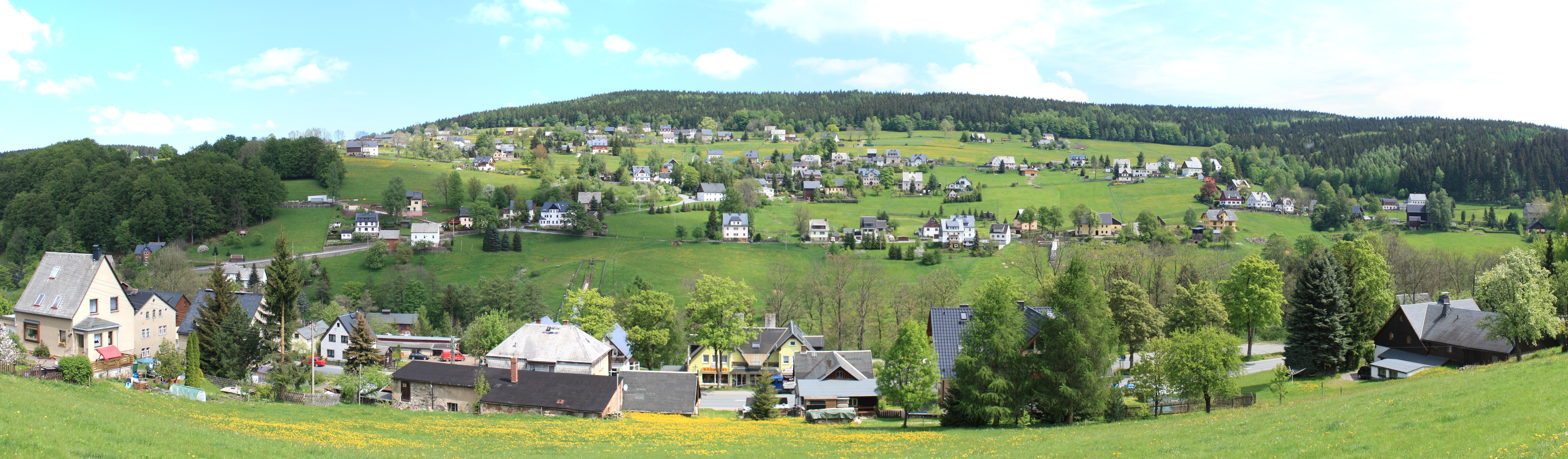 Panoramic View over Hammerberg, Rittersgrün